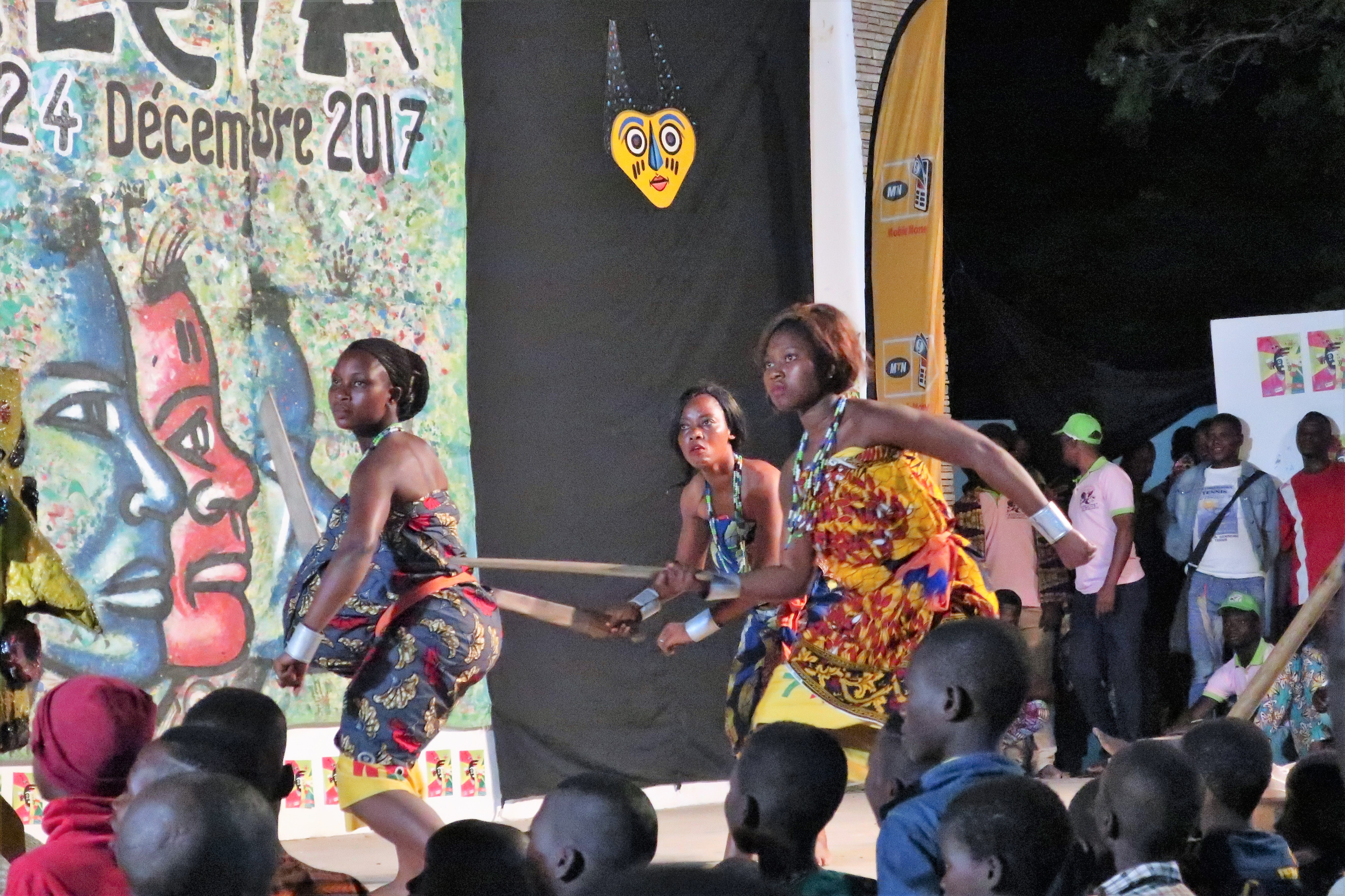 Women performers in Kaleta festival Ouidah Benin 2017